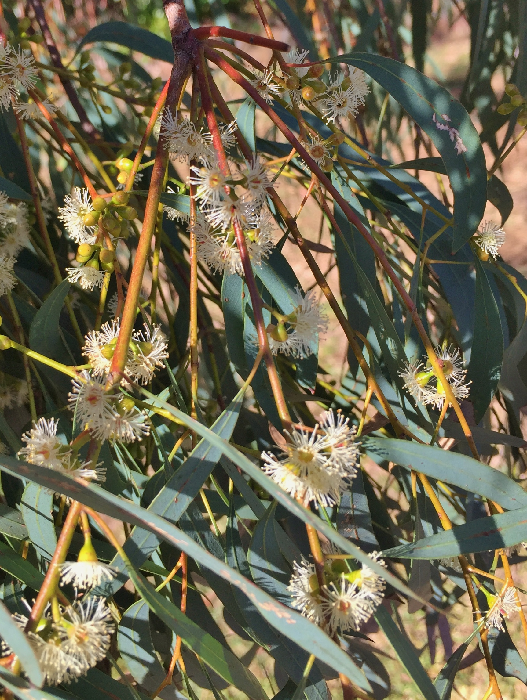 Flowers of Eucalyptus radiata (narrow-leaved peppermint)